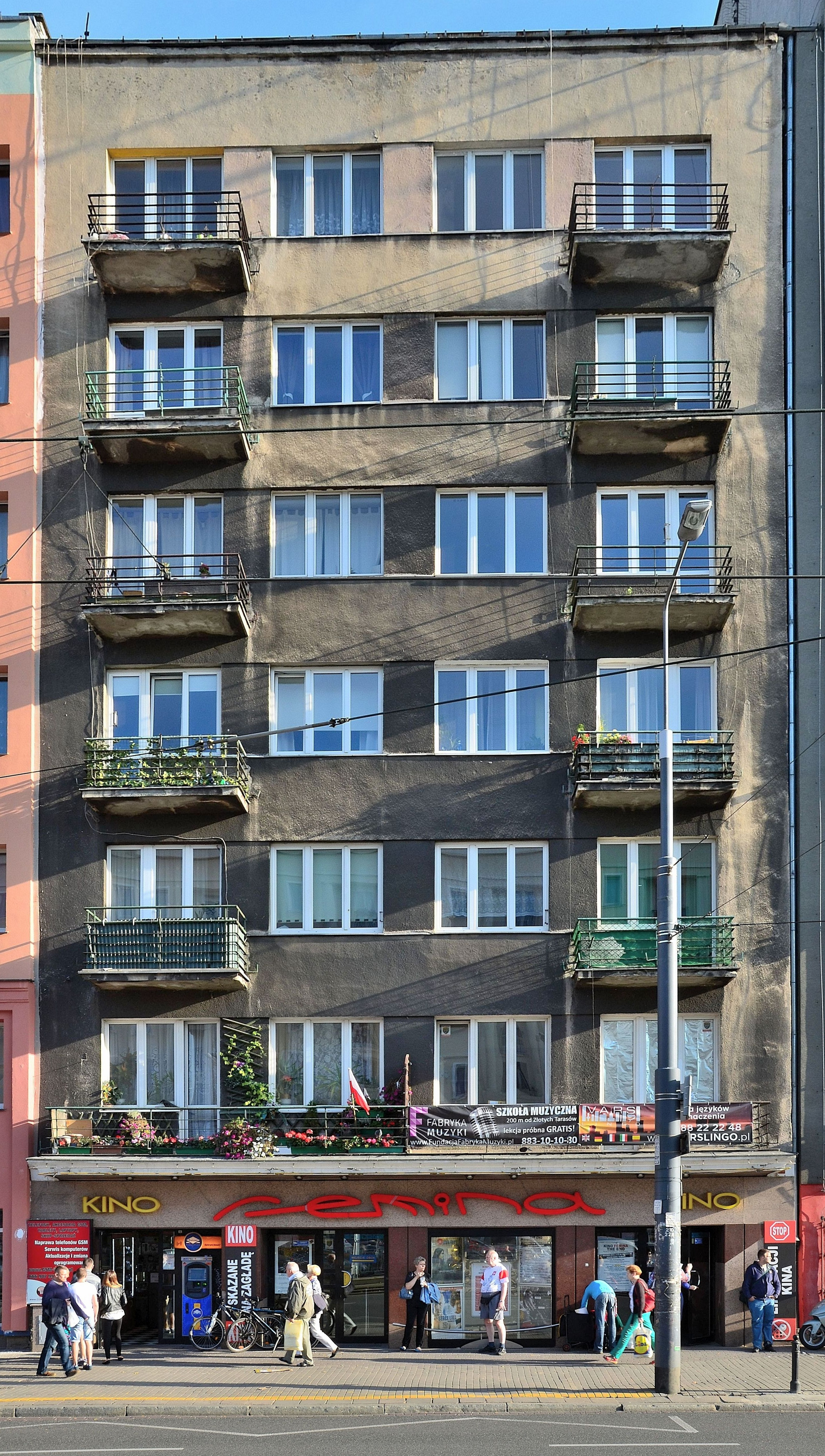 Townhouse at 115 Solidarności Avenue in Warsaw